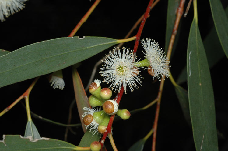 Flower buds and flowers of Eucalyptus gregsoniana in the Australian National Botanic Gardens